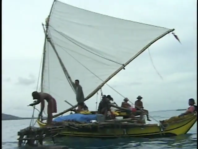 Photograph of a traditional Micronesian canoe, travelling during the Millenium 2000 Voyage. Sesario Sawralur and his crew arrive in Saipan.